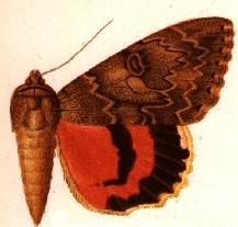 PLATE CXCIX.